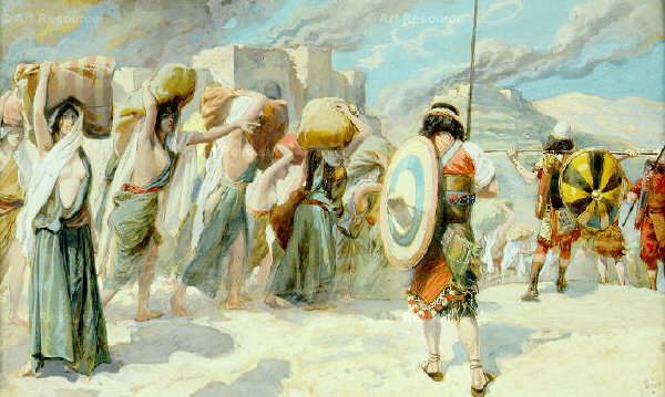 The Women of Midian Led Captive by the Hebrews, watercolor by James Tissot, at the Jewish Museum, New York